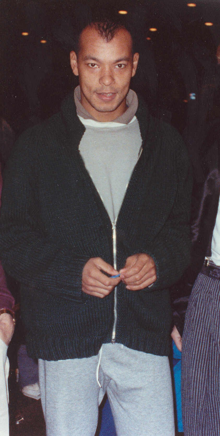 Roland Gift, of Fine Young Cannibals, at Grammy rehearsal 2/20/90 - Permission granted to copy, publish, broadcast or post but please credit "photo by Alan Light" if you can902